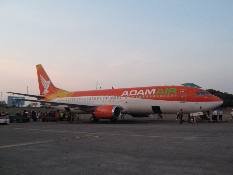 Adam air parking